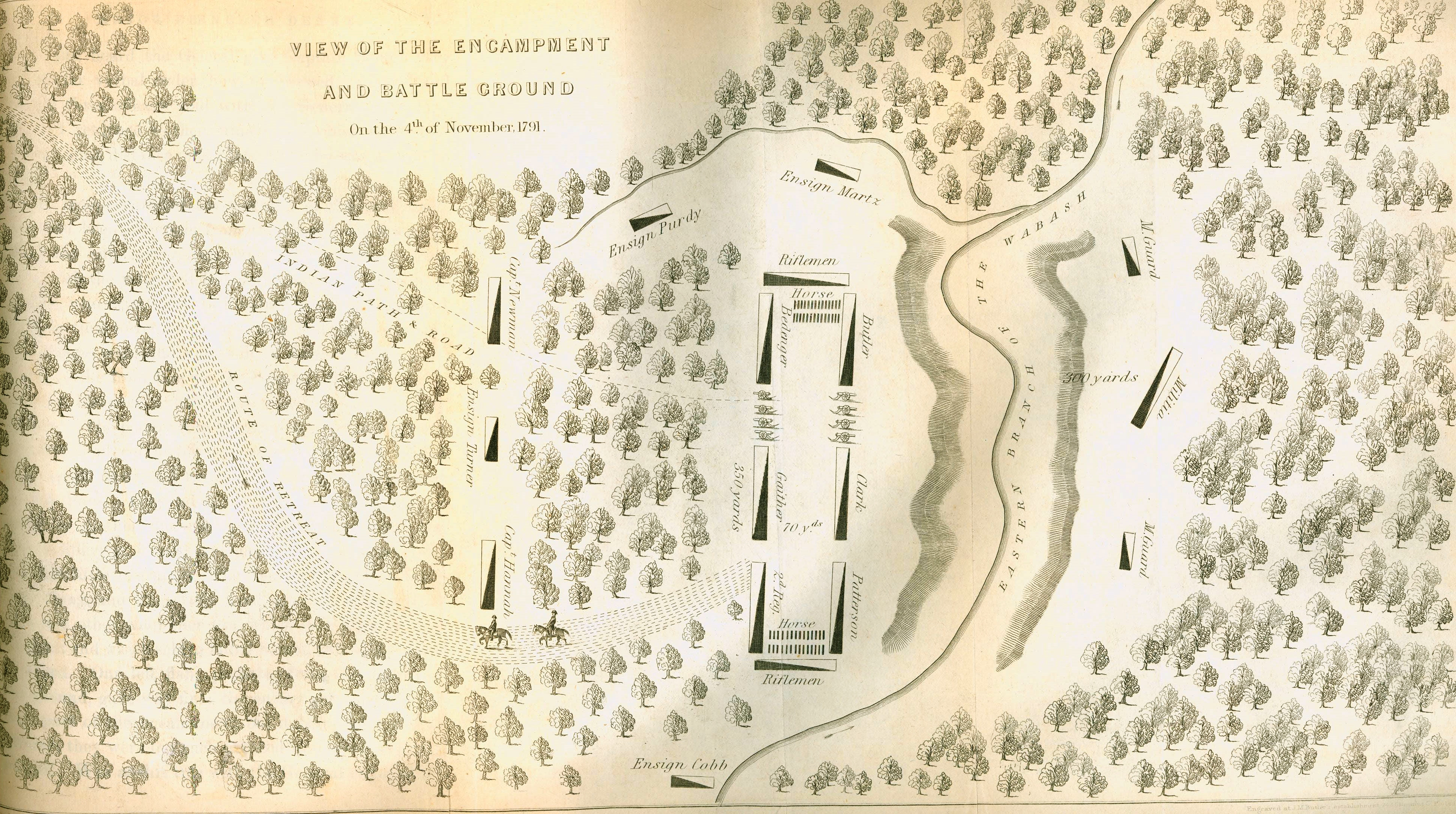 Map of St. Clair's Encampment and Retreat, 4 November 1791